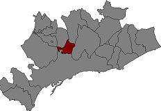 Location of els Pallaresos in Tarragonès